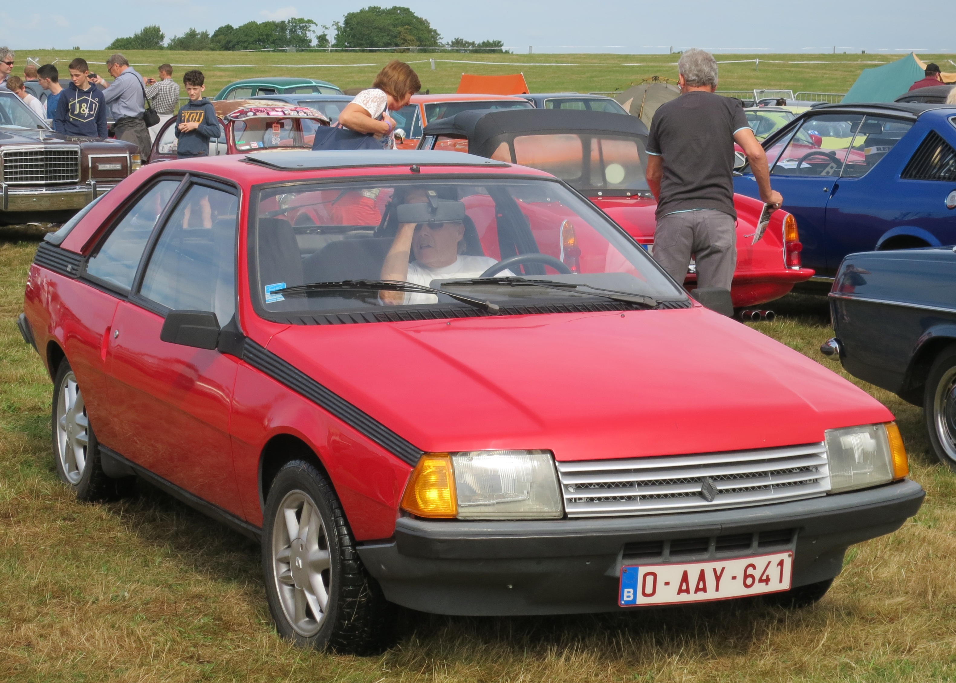 Renault Fuego in Belgium